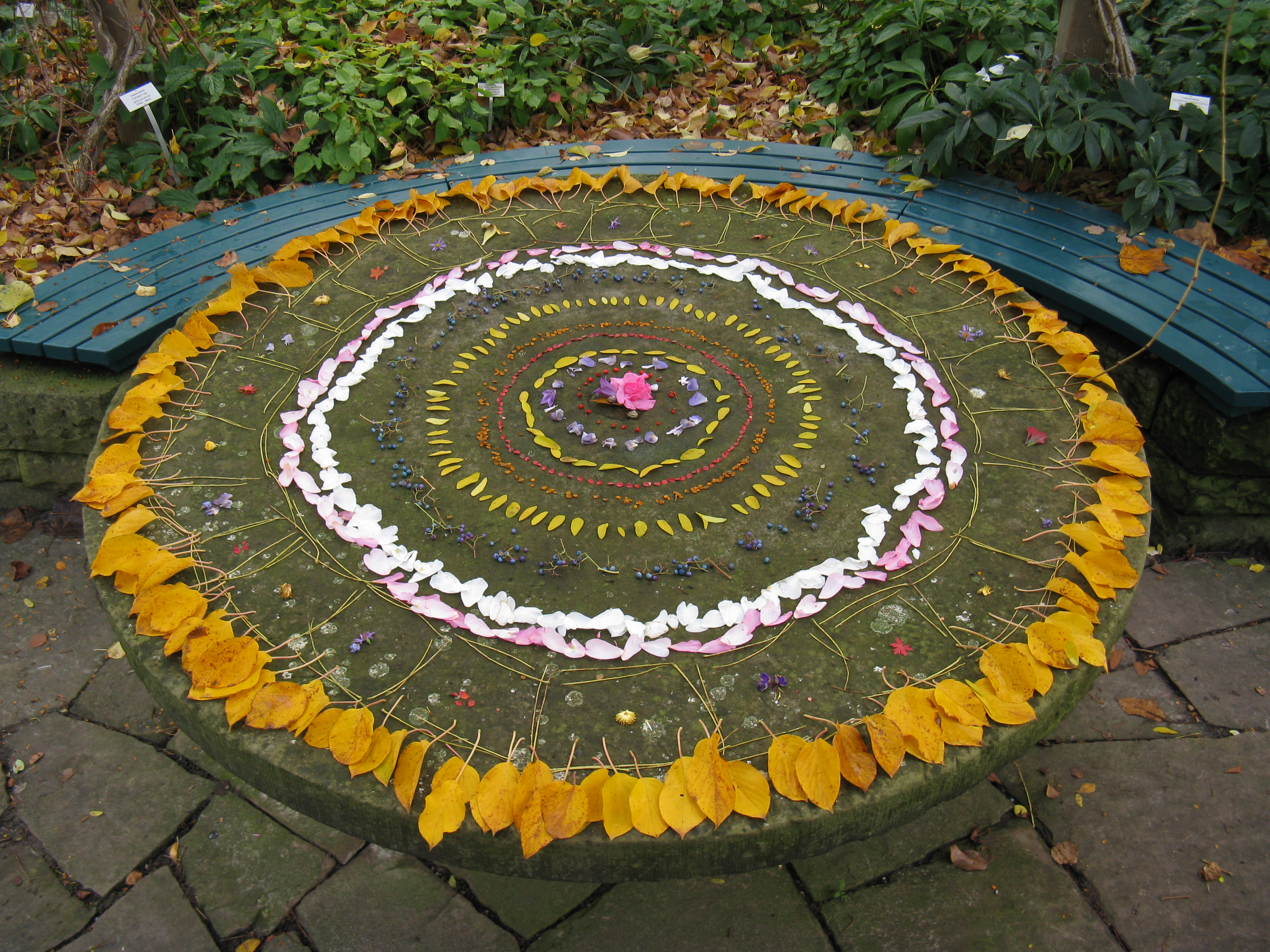 Typical Autumn Mandala, composed from blossoms and leaves, with seasonal colouration (created in the Berggarten Hannover, a historical botanical garden in Hannover, Lower Saxony, Germany)